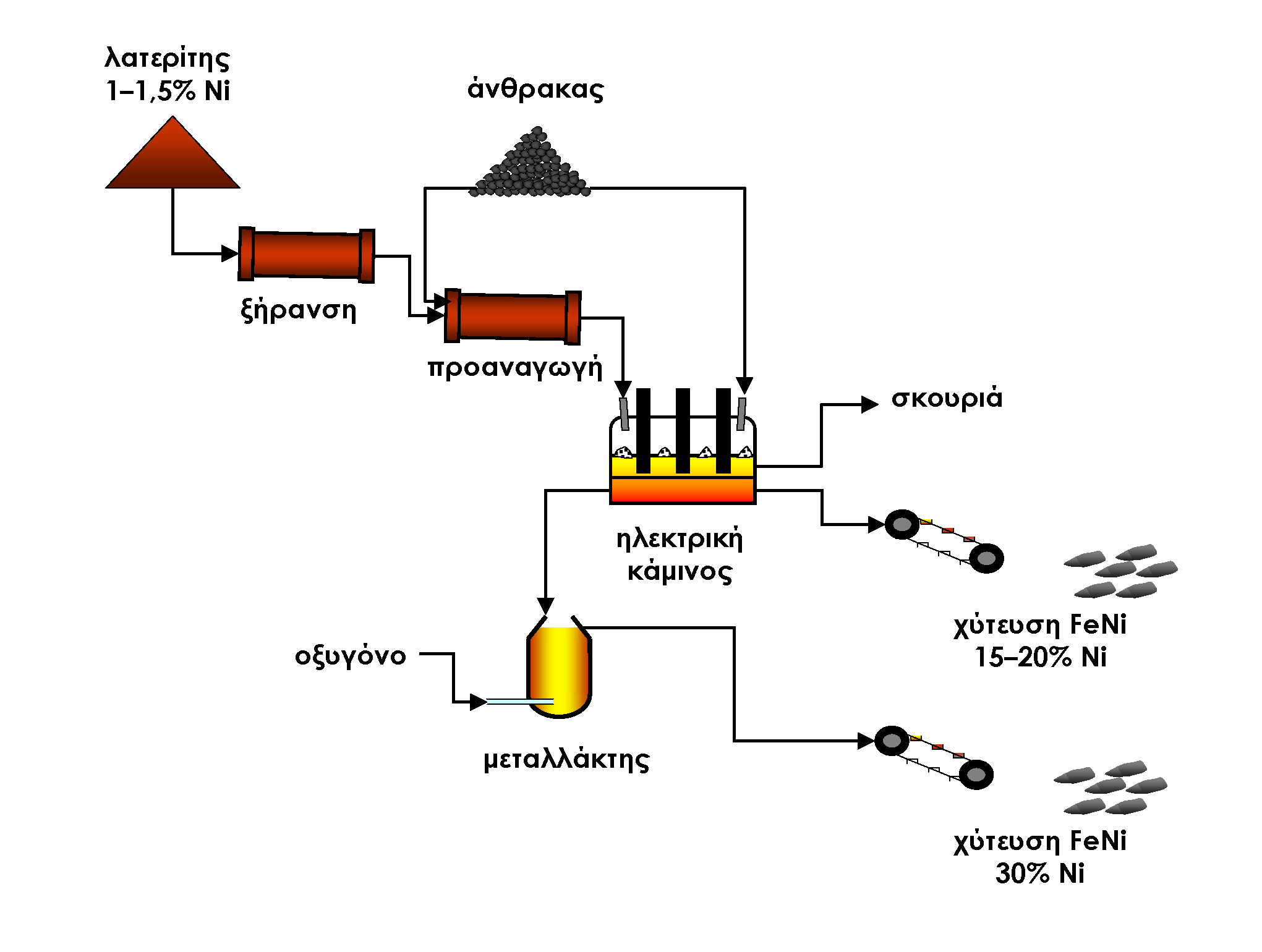 Ferronickel-production-greek